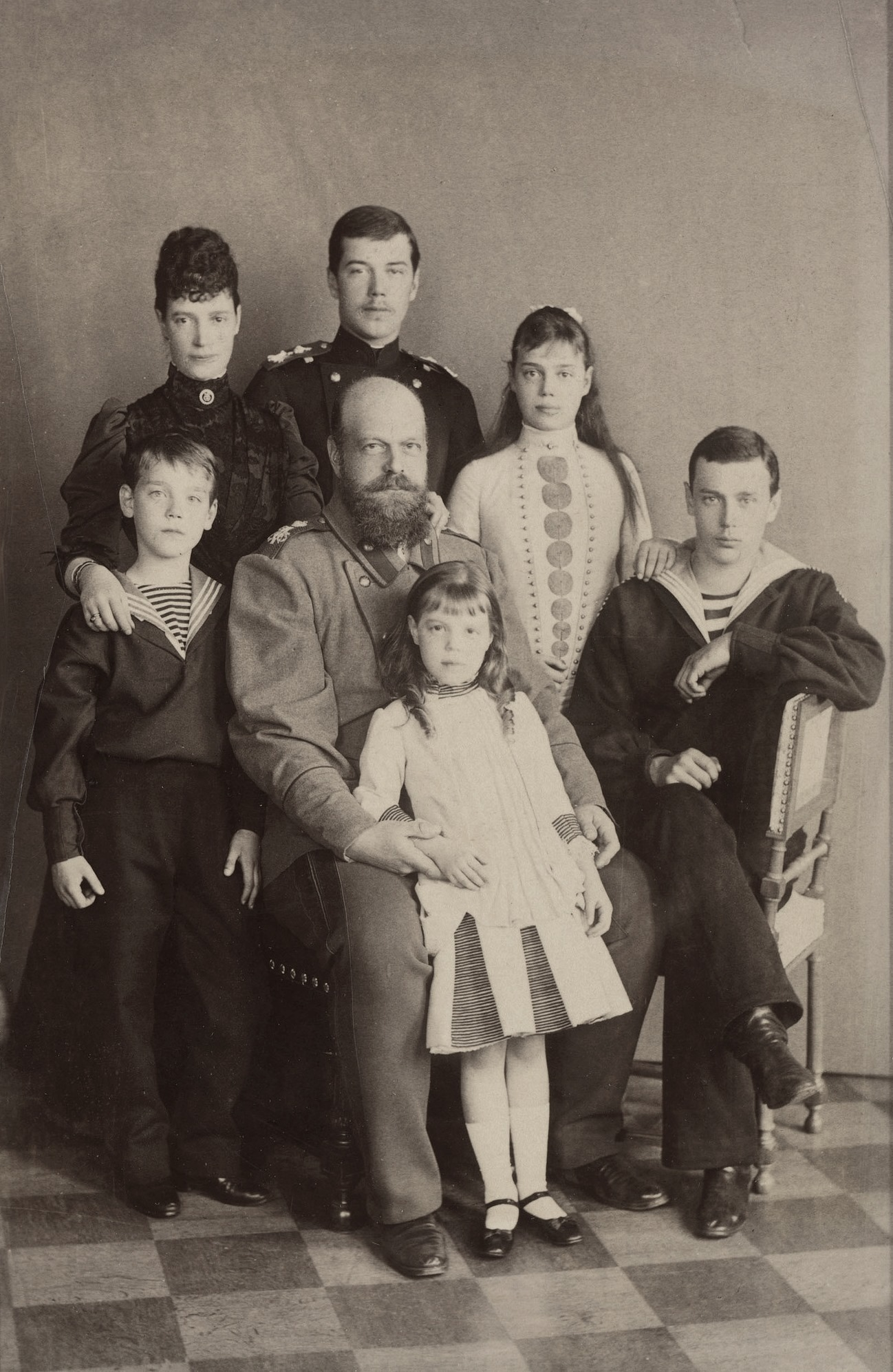 Photograph of Alexander III, Emperor of Russia (1845-94) and his consort Maria Feodorovna, Empress of Russia (1847-1928) with their children Tsesarevich Nicholas (1868-1918), later Nicholas II, Grand Duke George Alexandrovich (1871-99), Grand Duchess Xenia Alexandrovna (1875-1960), Grand Duke Michael Alexandrovich (1878-1918) and Grand Duchess Olga Alexandrovna (1882-1960). Alexander III is sitting at the centre of the group with Grand Duchess Olga standing in front of him. Maria Feodorovna is standing behind him to the left, her left hand on his shoulder and her right arm around Grand Duke Michael. Tsesarevich Nicholas and Grand Duchess Xenia are standing to the right of their mother. Grand Duke George is sitting to the far right, his legs crossed and his left arm resting on the back of the chair.